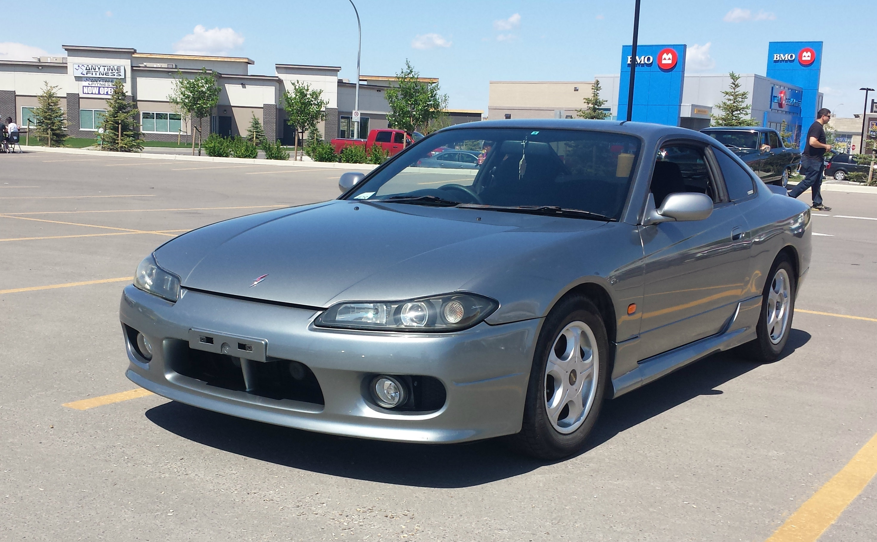 S15 generation Nissan Silvia imported from Japan.